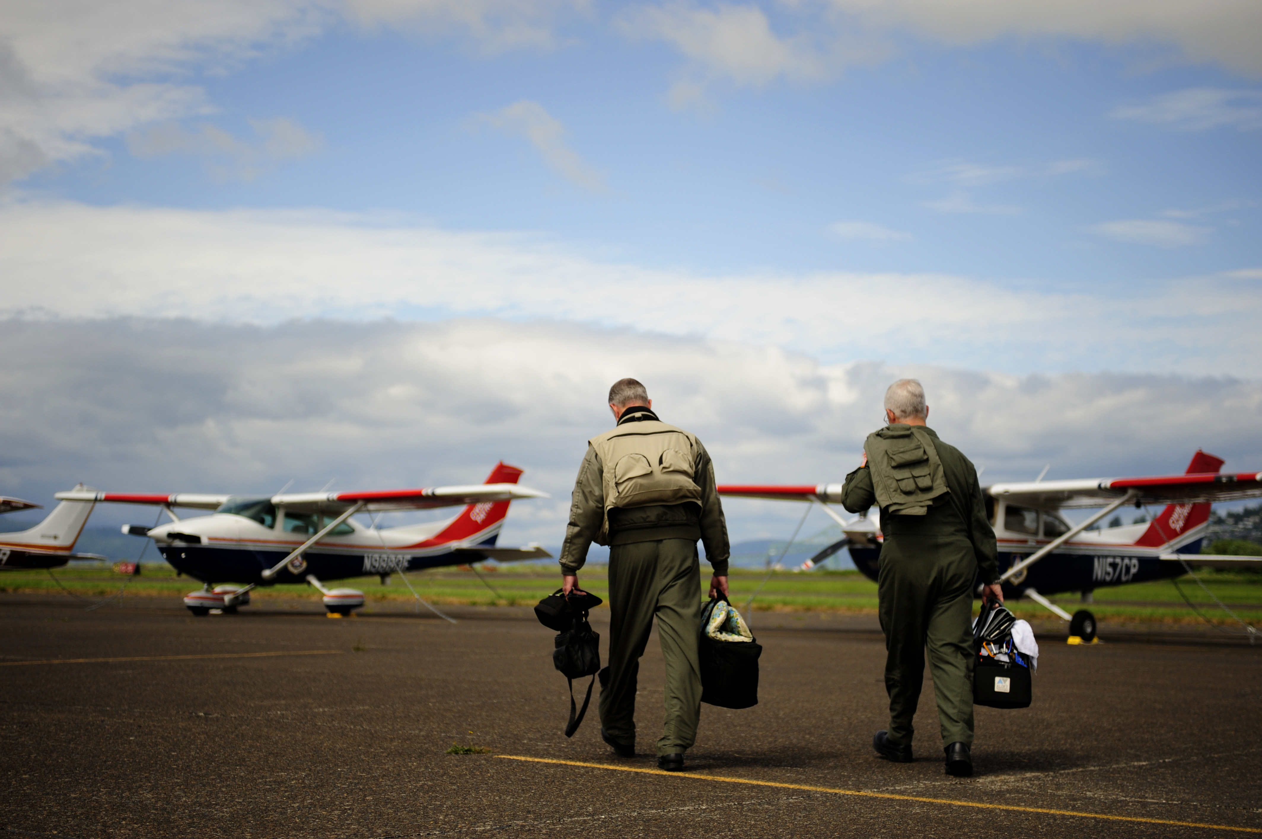 Civil Air Patrol Lt. Col. Wayne Schulz, left, and Capt. John Barringer walk to a C-182 Cessna before departing Astoria, Ore., during Amalgam Dart 2009, June 18, 2009. Amalgam Dart is a field test of the Department of Defense's ability to rapidly deploy an integrated air defense system in the United States.